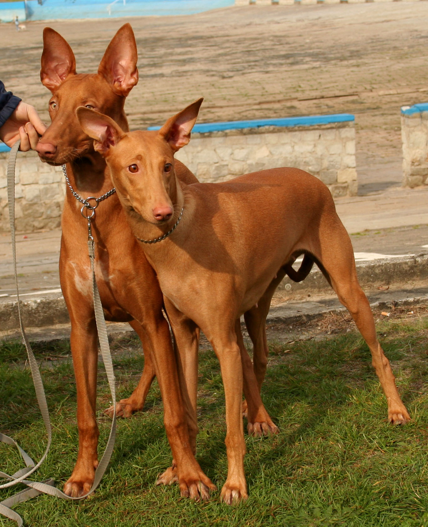 Pharaoh Hounds. Adult female (right) and male.